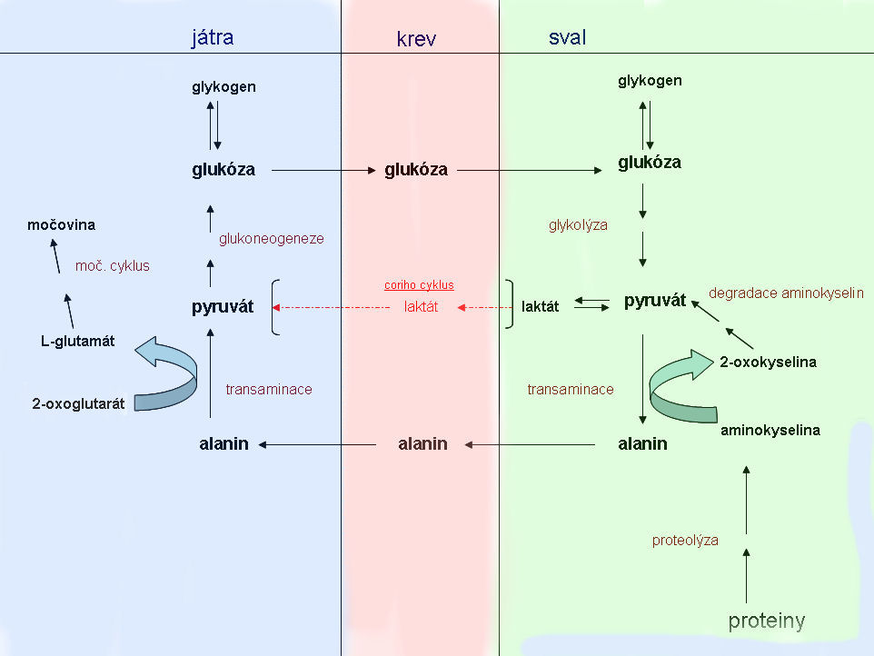 alanine cycle